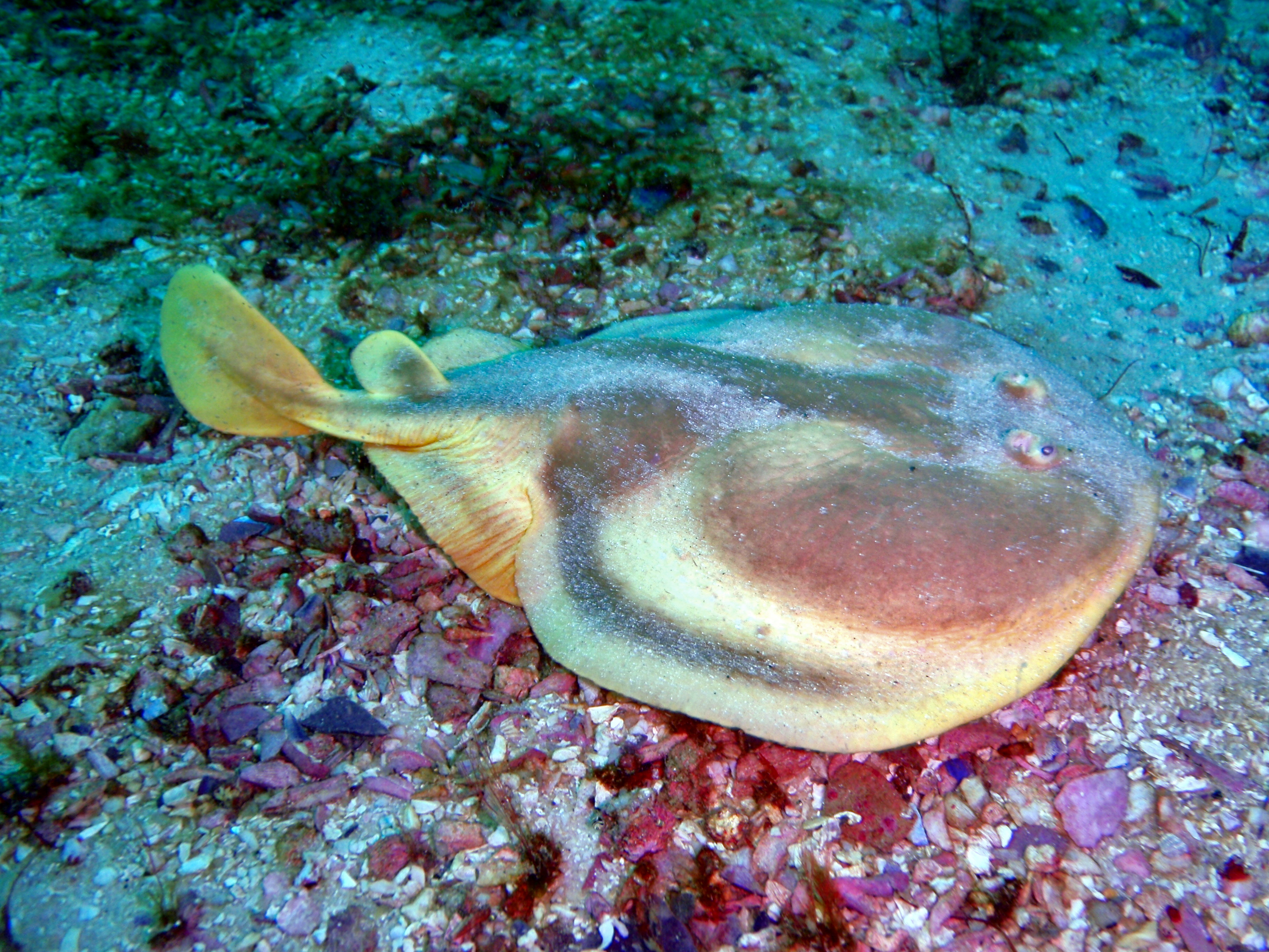 The One-fin electric ray can deliver a startling shock to an unwary diver, Cape Peninsula.